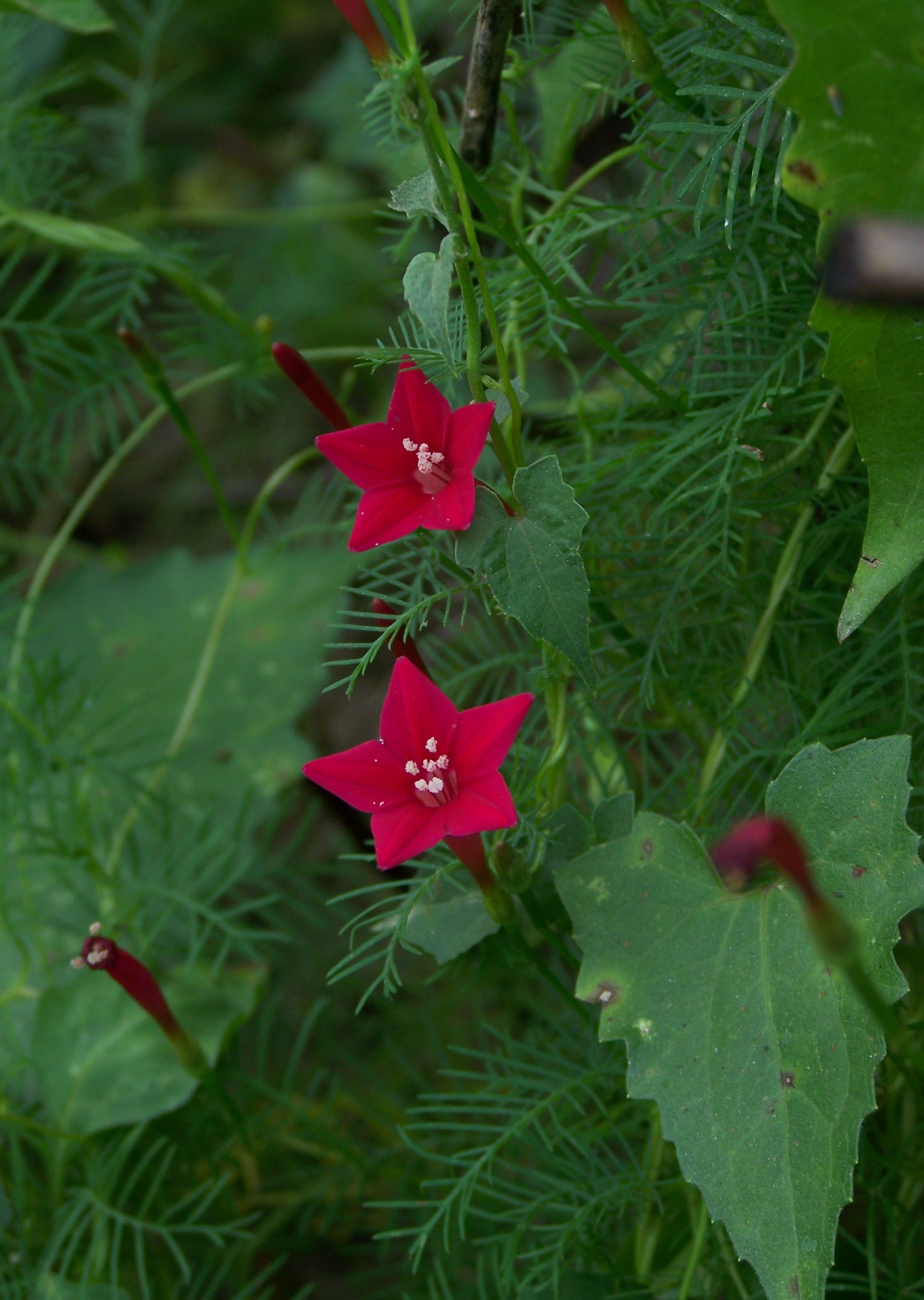 See User:Woudloper/Himalayan flora. Ipomoea quamoclit, May, 0300 m, Royal Chitwan National Park, Nepal